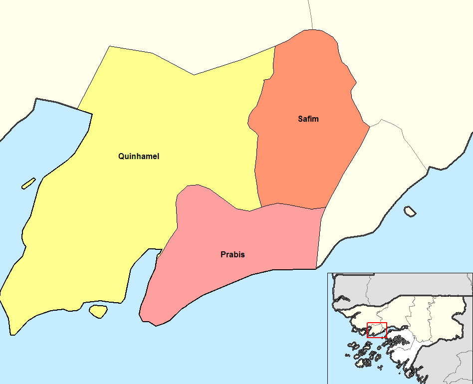 Map of the sectors of Biombo region in Guinea-Bissau. Created by Rarelibra 13:56, 14 September 2006 (UTC) for public domain use, using MapInfo Professional v8.5 and various mapping resources.